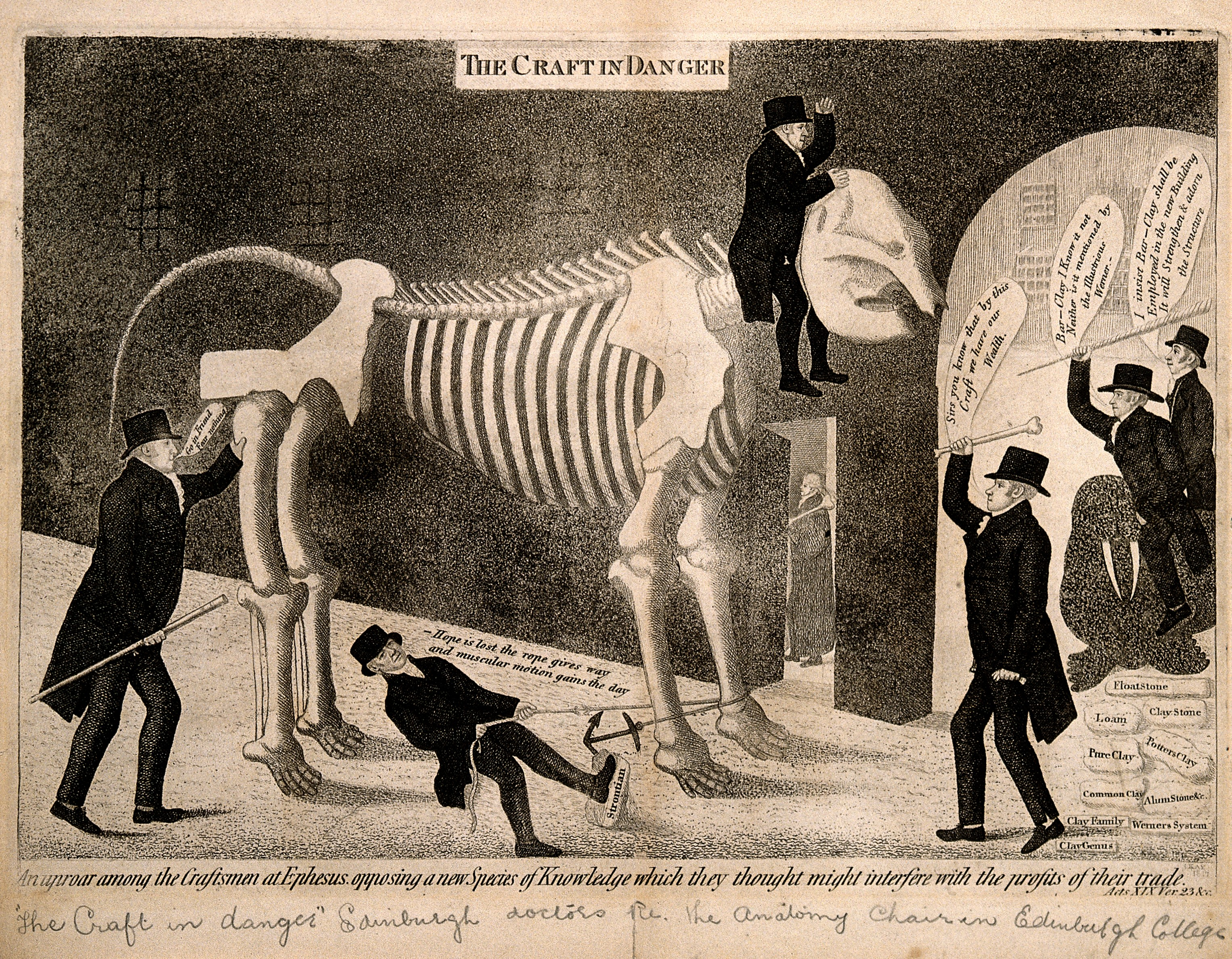 Dr Barclay's advocation to the proposed professorship of comparative anatomy supported and opposed: represented by him riding the skeleton of an elephant into the University of Edinburgh. Etching by J. Kay, 1817. Iconographic Collections Keywords: James Gregory; Thomas Charles Hope; John Barclay; John Kay; Robert Johnson; Robert Jamieson; Alexander Monro